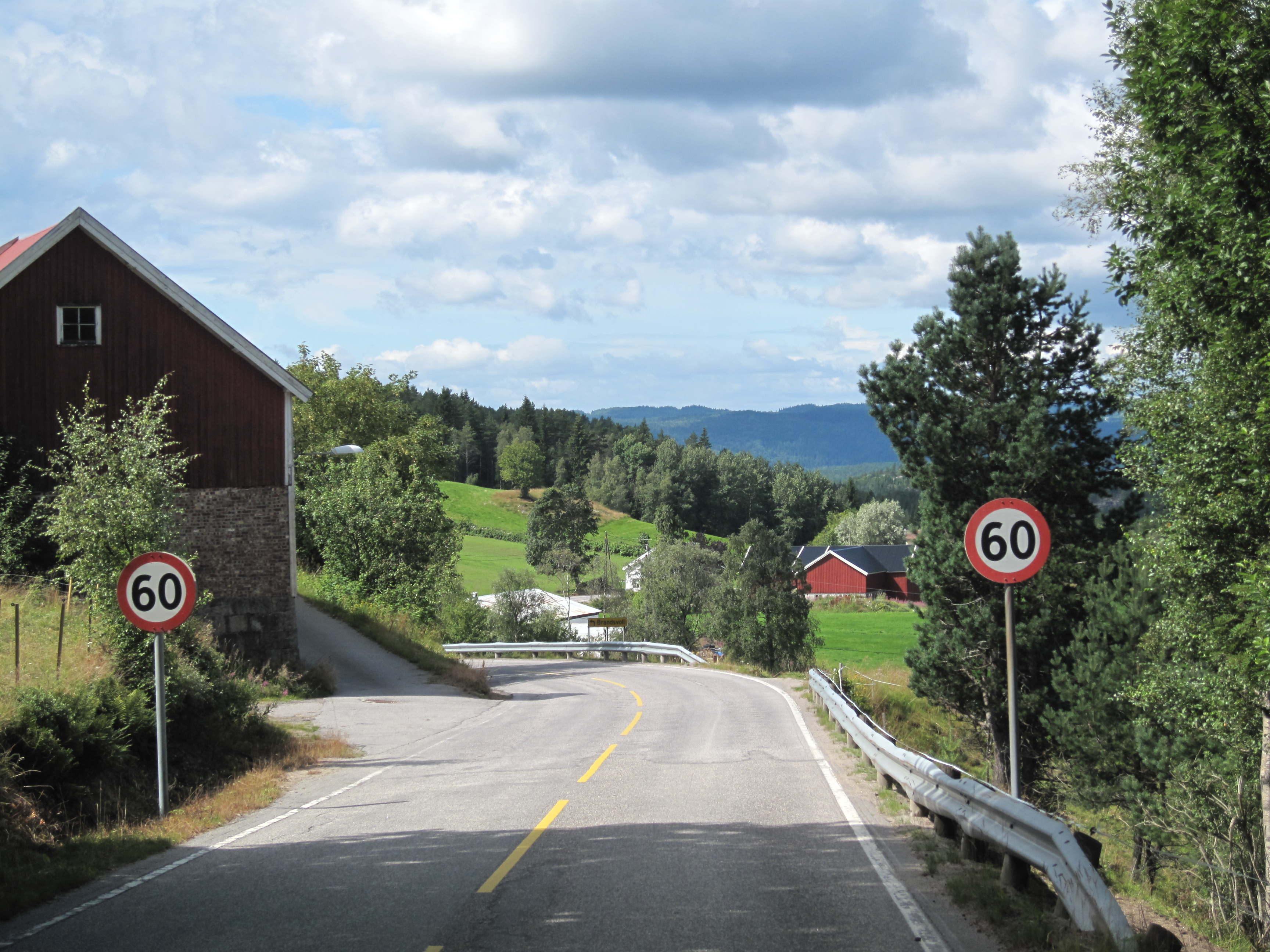 Photo of Koland, looking west from eastern edge.